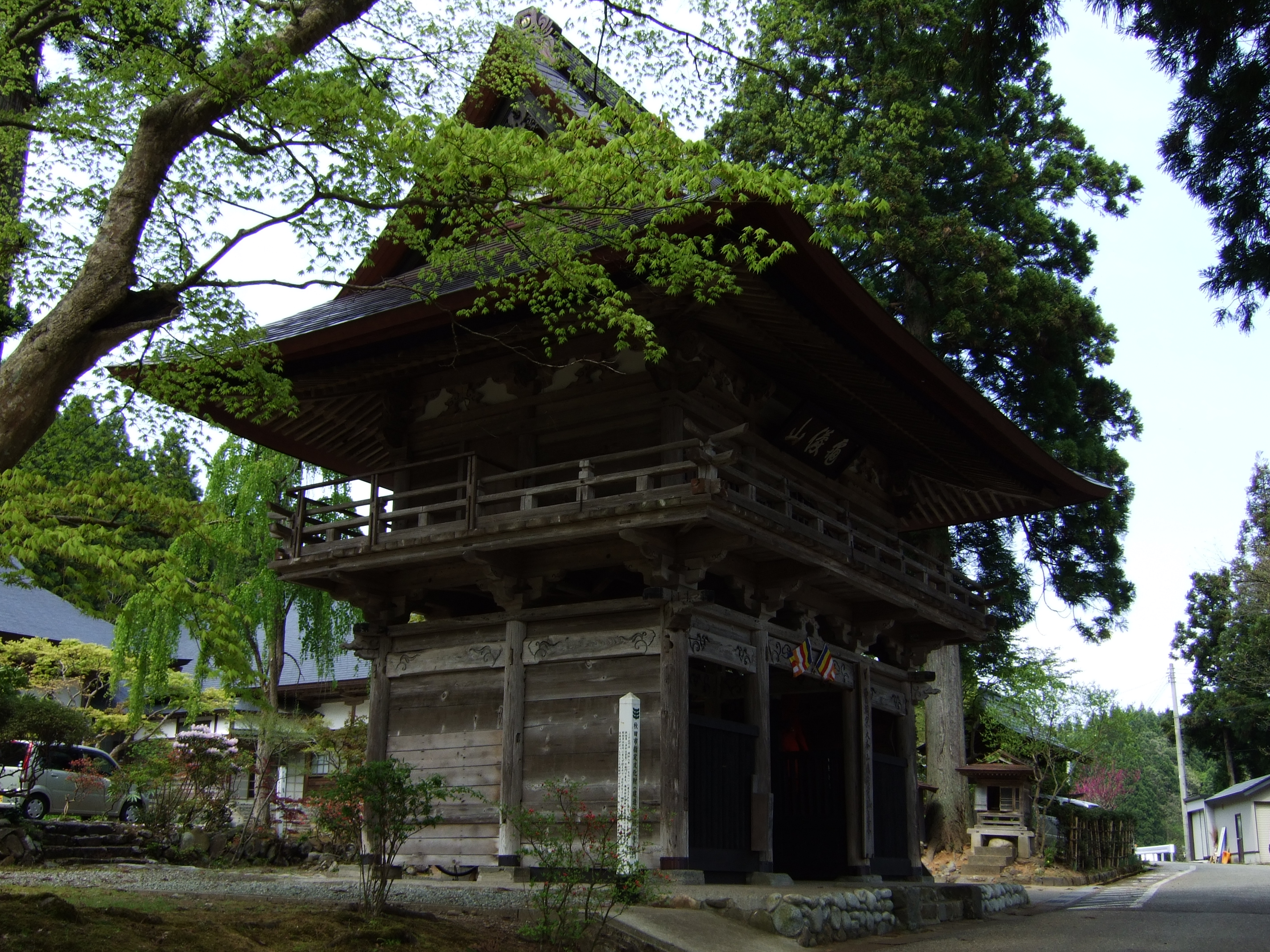 Hoda-zi temple, Akita city, Japan